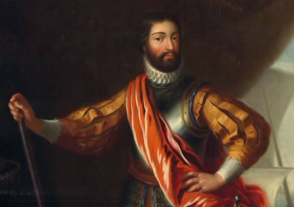 Teodósio I, Duke of Braganza.